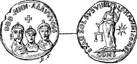 A struck exagium (coin weight) of the emperors Arcadius, Honorius and Theodosius II: legend surrounding the imperial busts "DDD NNN AAA VVV GGG" (Dominorum nostrorum Augustorum) and surrounding the Justitia figure EXAG. SOL. SVB. V. INL. IOHANNI. COM. S. L. - CONS (Exagium solidi sub viro inlustri Iohanni comiti sacrarum largitionum).